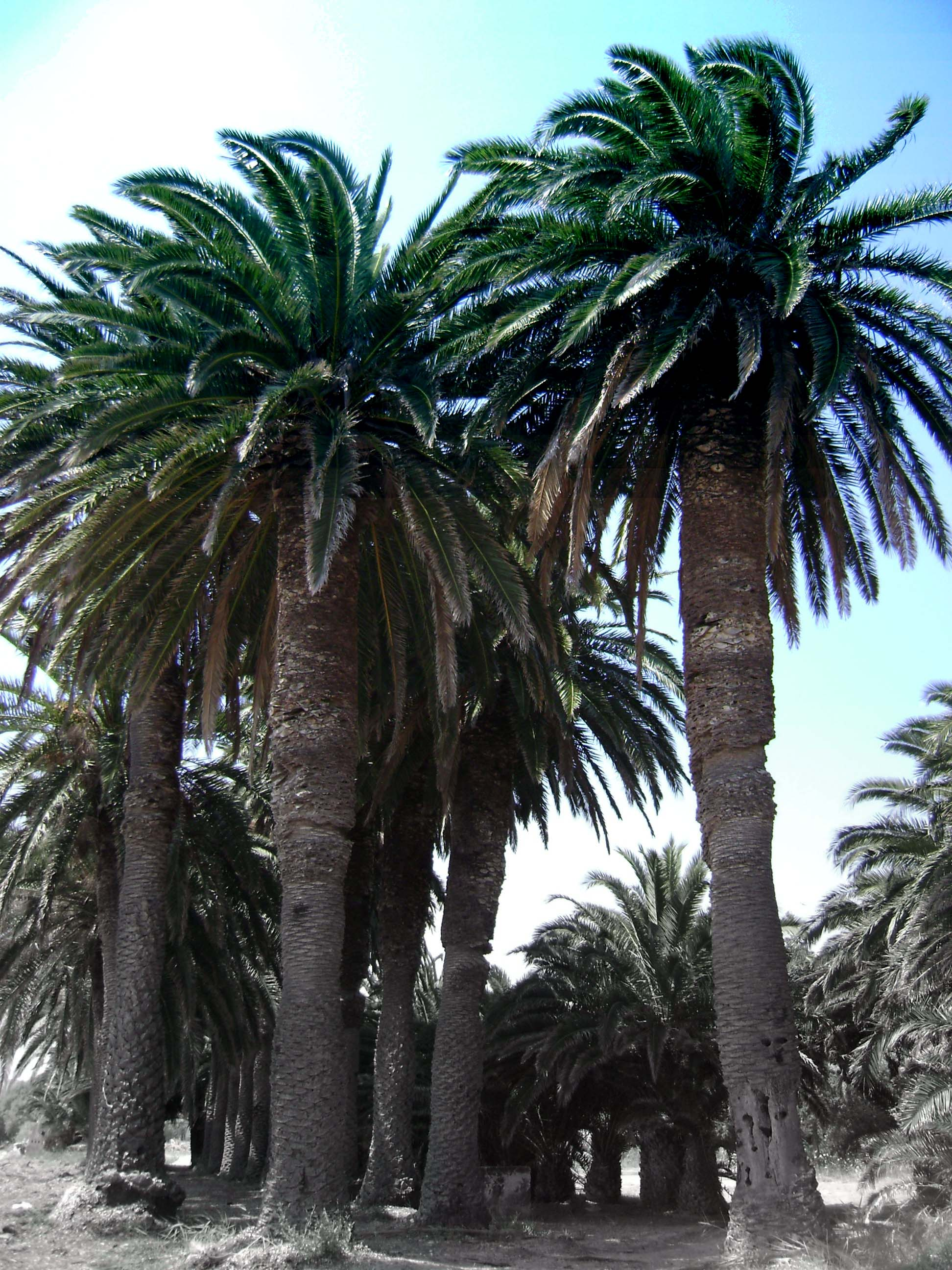 Kalamiaris phoenix canariensis palm forest, Lesvos